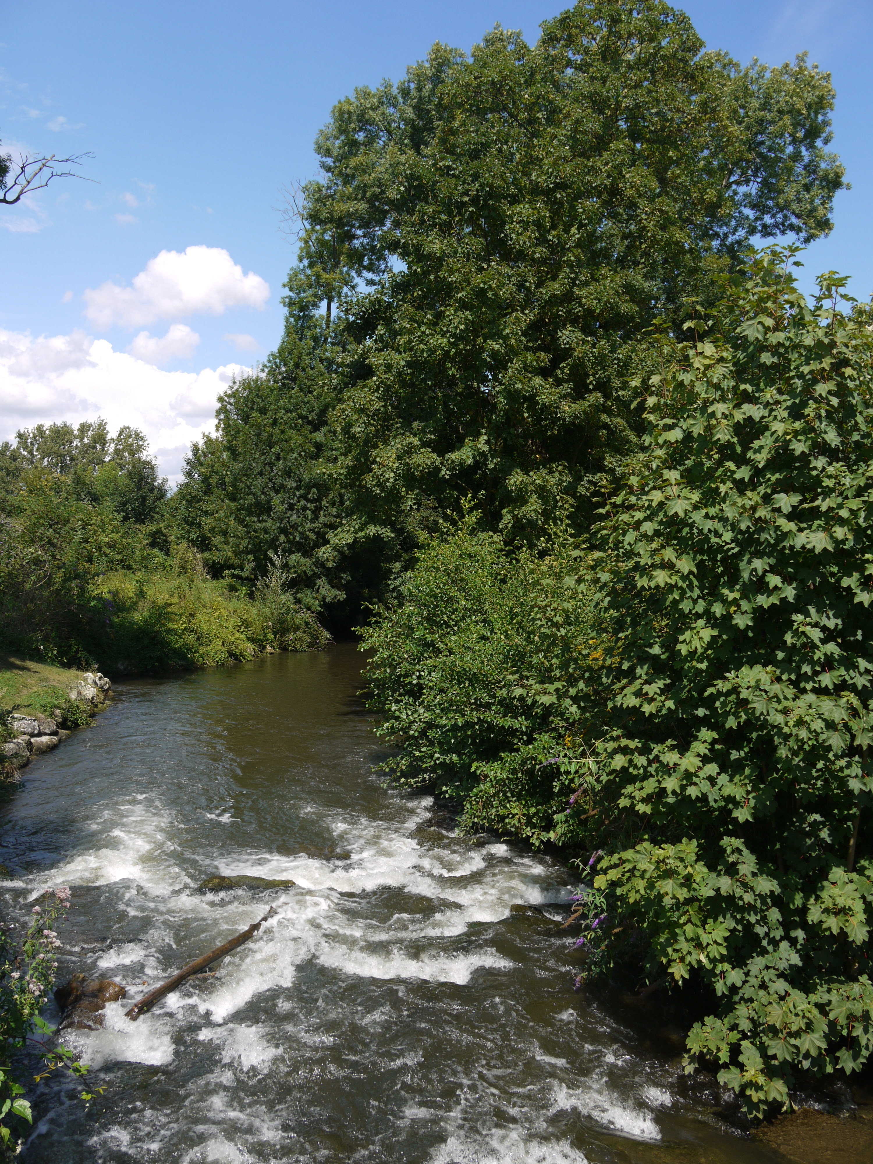 Essonne River in Ballancourt, Île-de-France, France